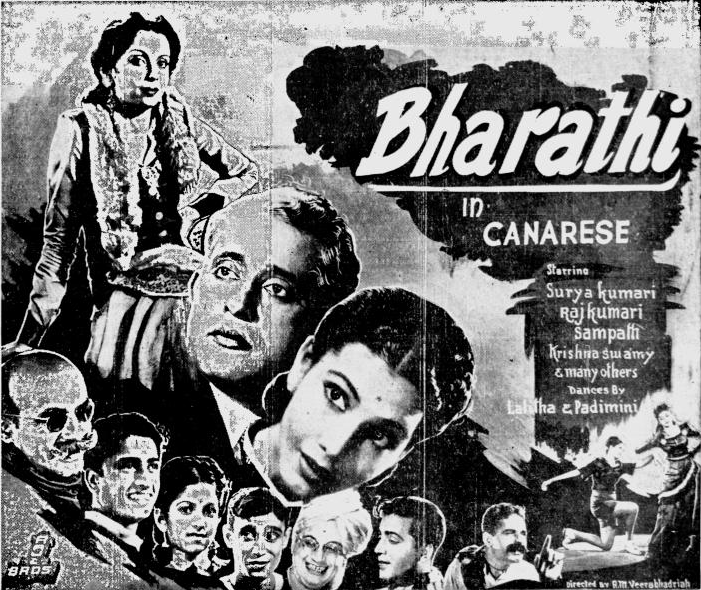 This is the poster of the 1948 Kannada-language film Bharathi that appeared on a 1948 edition of the newspaper, The Indian Express.